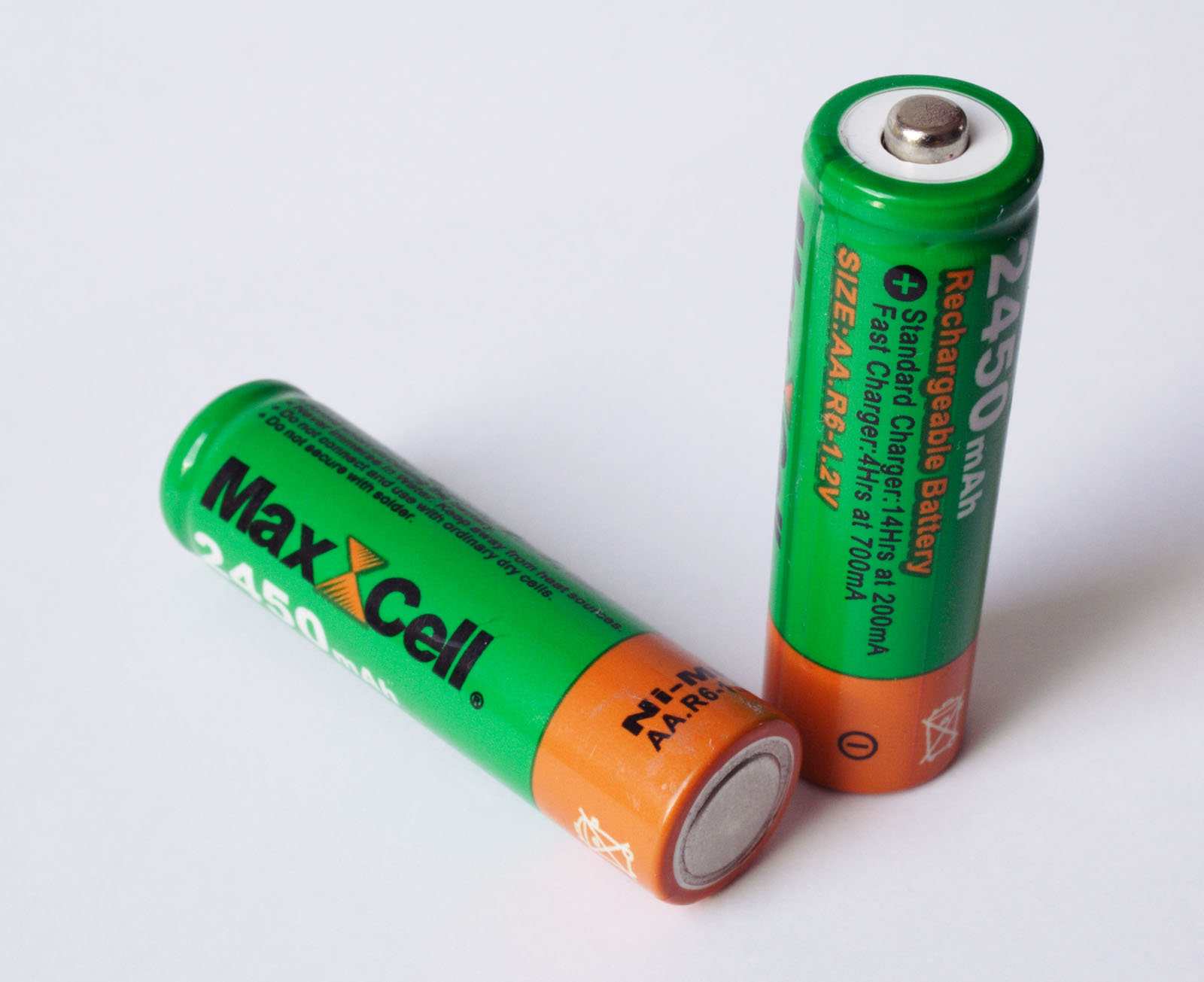 Two NiMH AA batteries